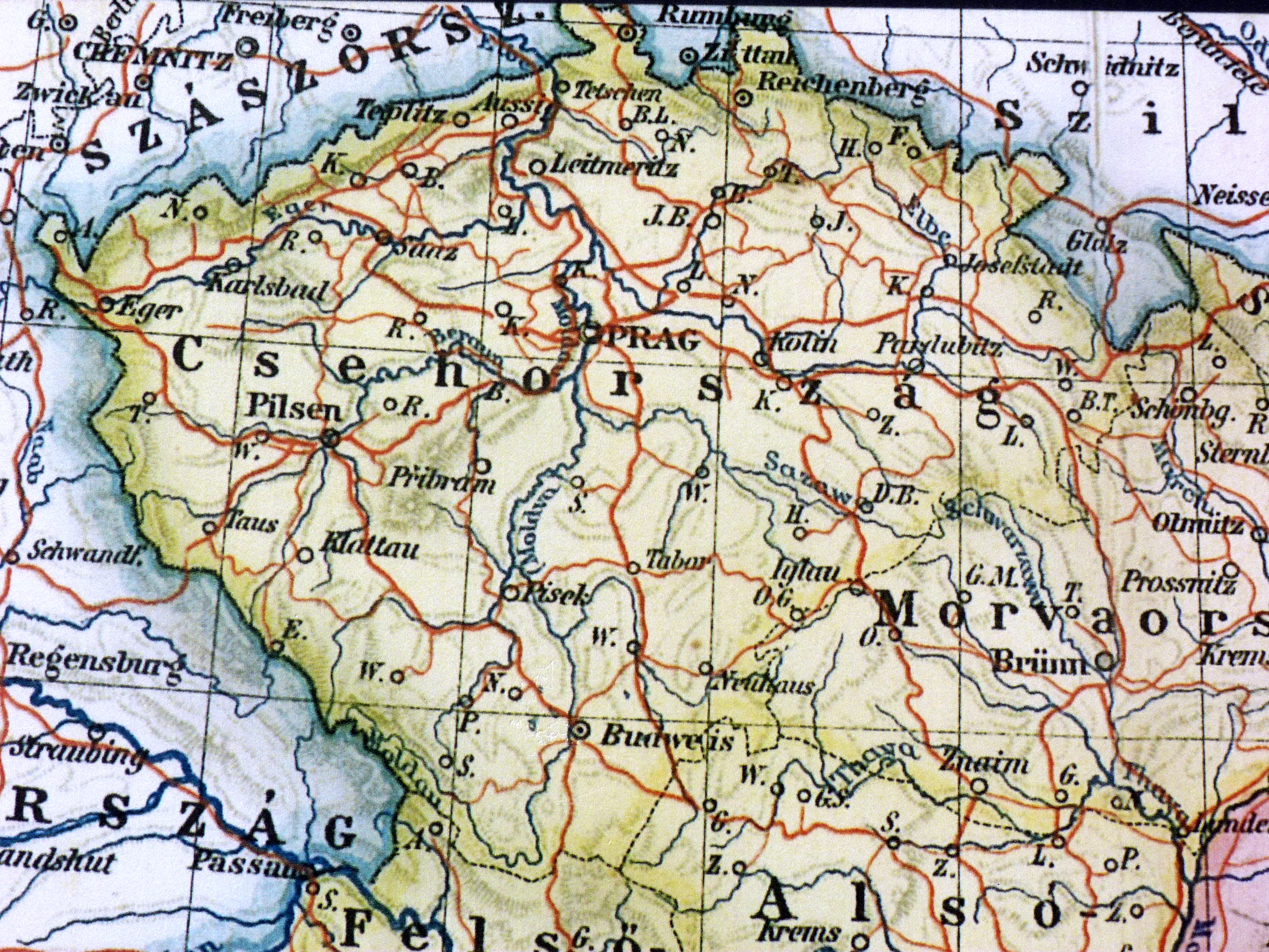 Historical map of railway lines in Bohemia. This image is an excerpt of a larger map showing the Kingdom of Hungary.